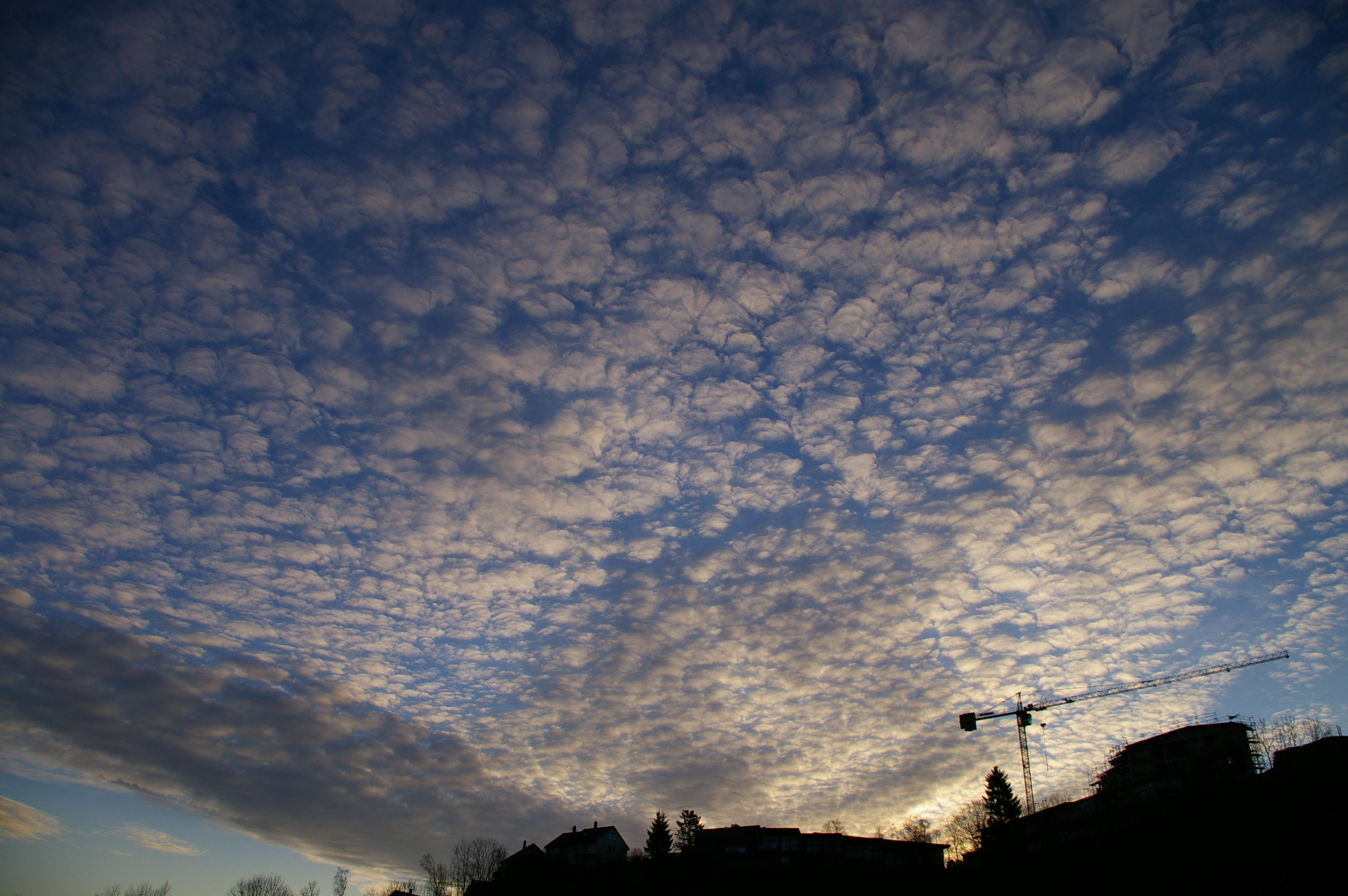 Alto cumulus clouds over Bergen, Norway a morning in April.